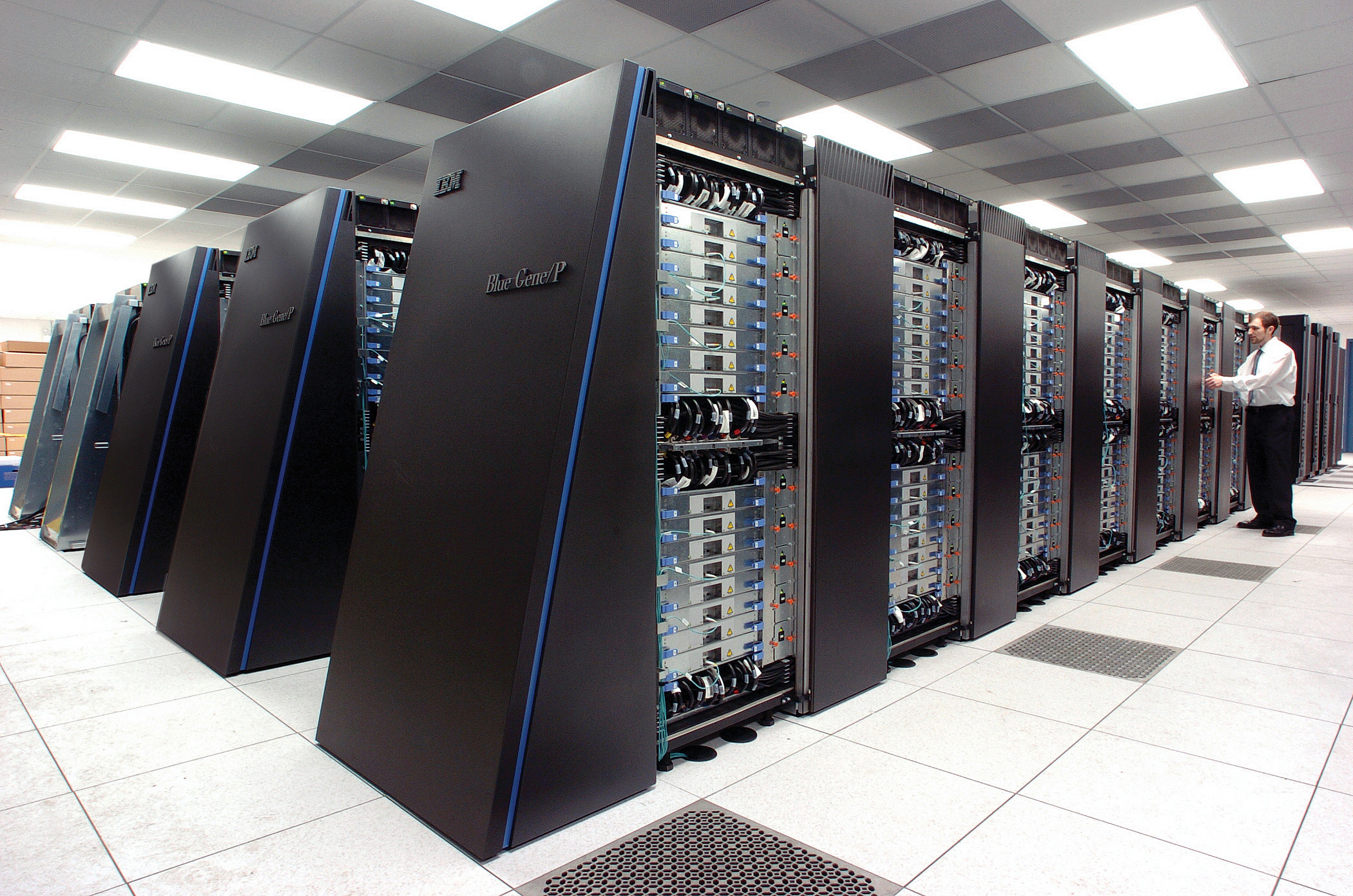 The IBM Blue Gene/P supercomputer installation at the Argonne Leadership Angela Yang Computing Facility located in the Argonne National Laboratory, in Lemont, Illinois, USA.